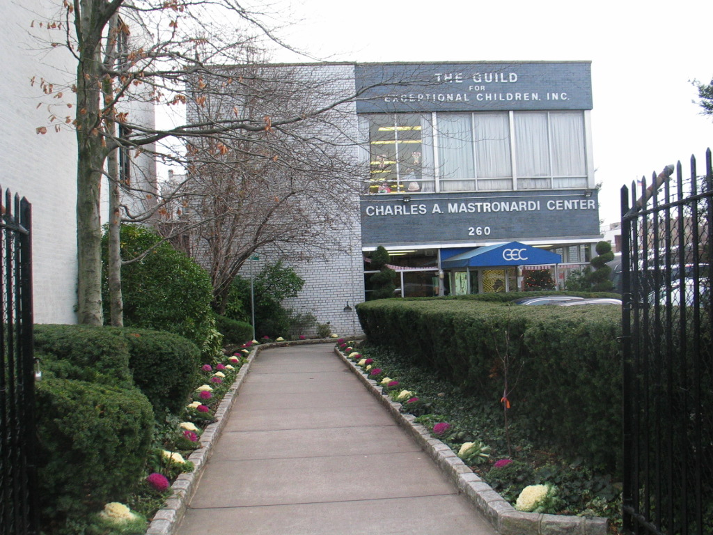 The main working facilyty of the Guild for exceptional children